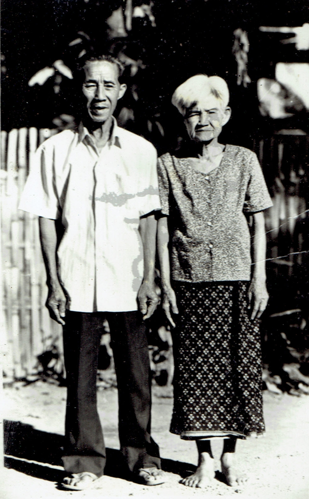 Ban Khung Taphao, Khung Taphao subdistrict, Mueang Uttaradit, Uttaradit Province, Thailand.